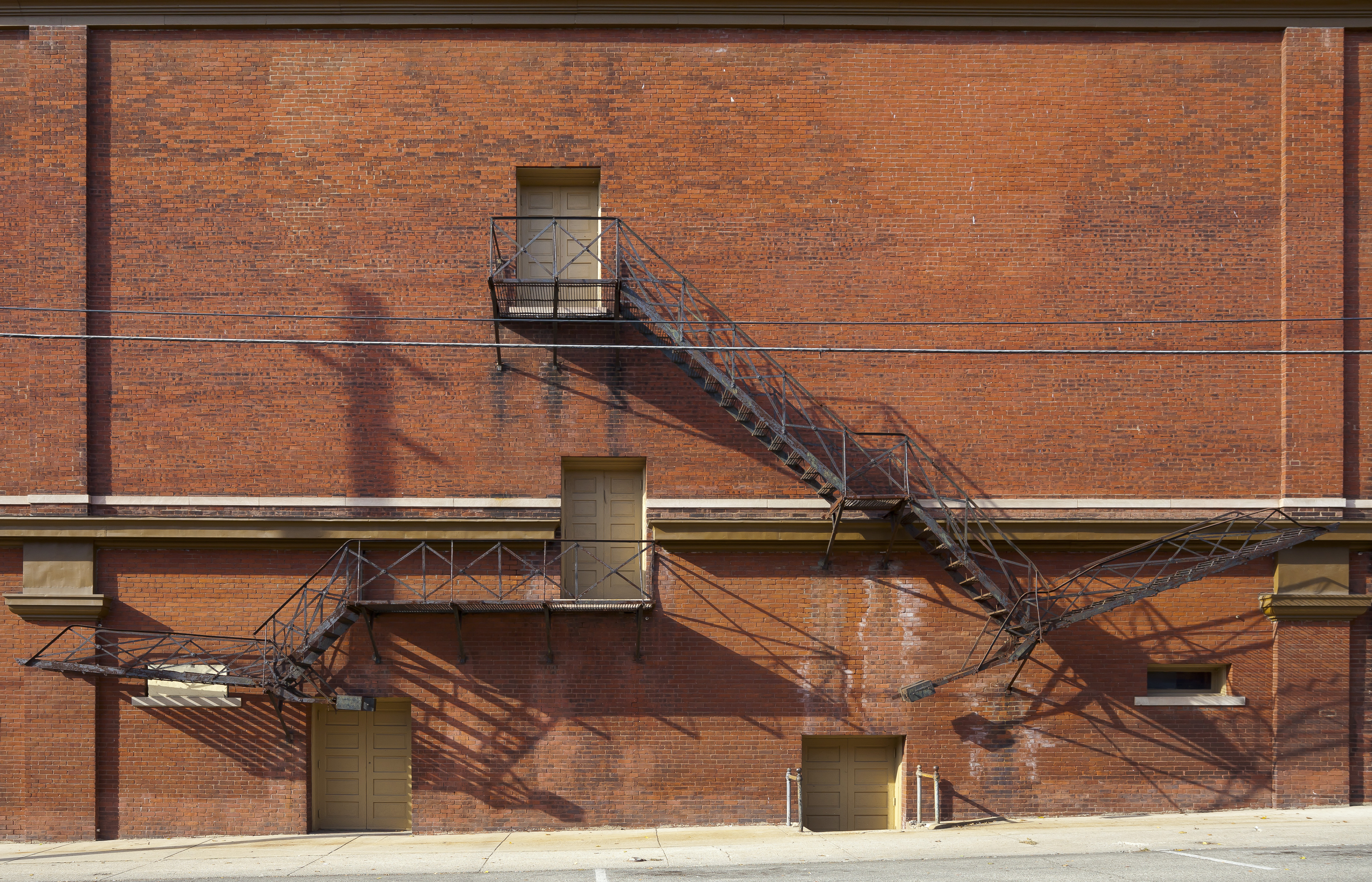 Wabash Downtown, Indiana, USA